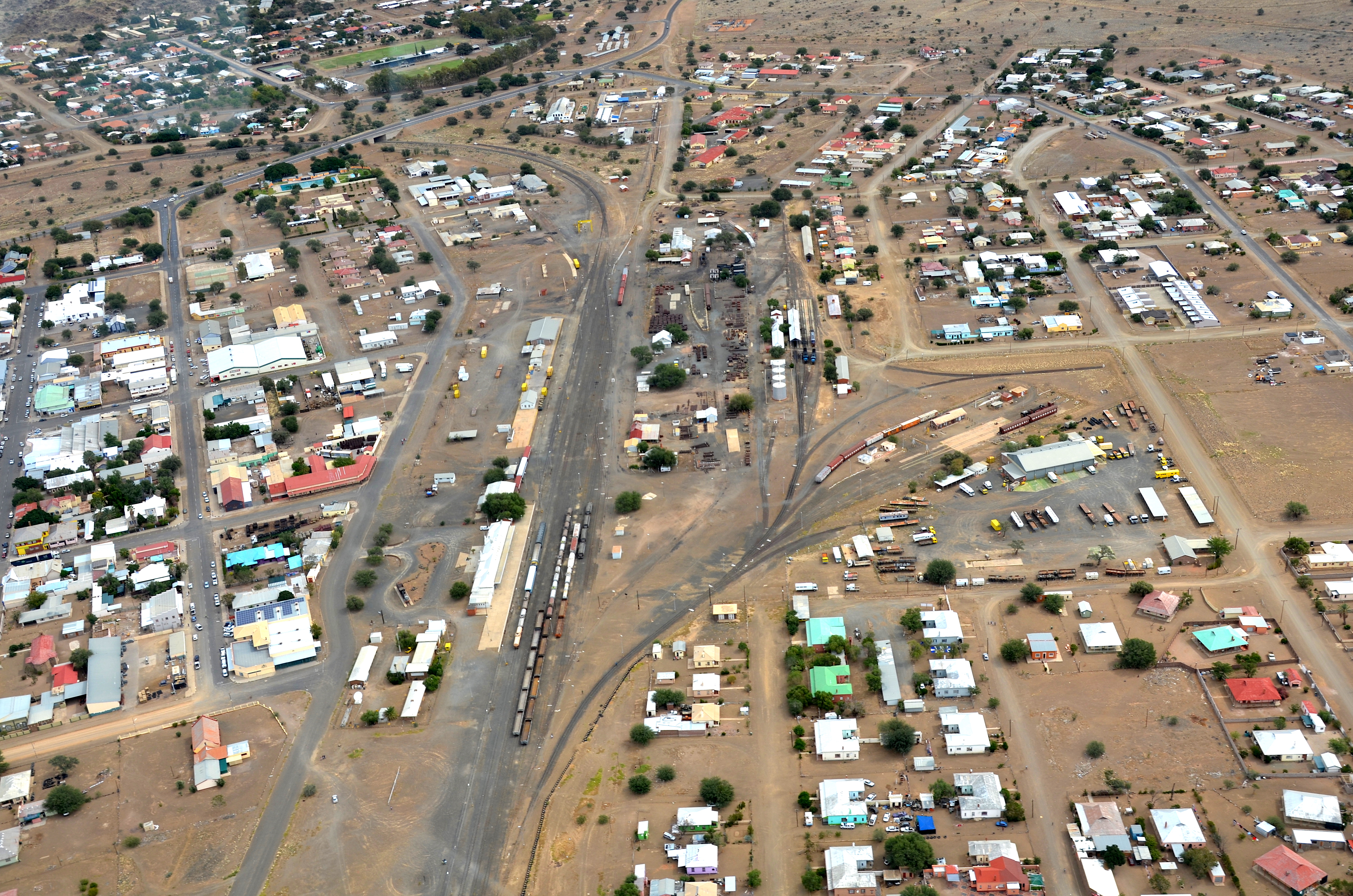 Keetmanshoop from bird's eye view